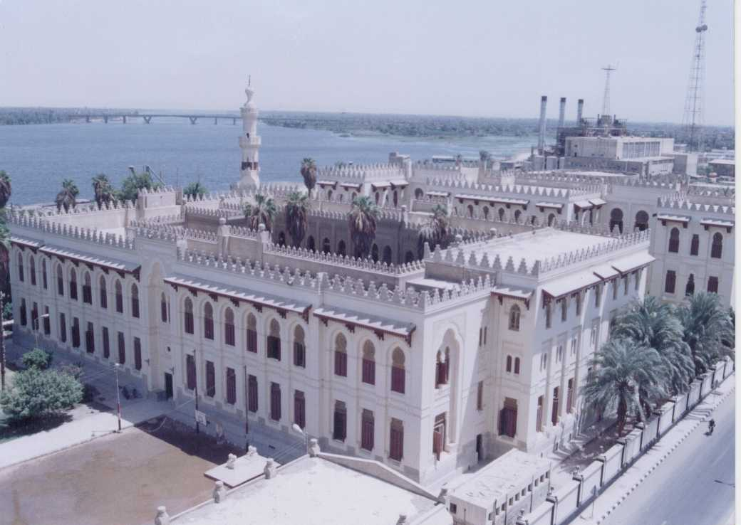 أهم عوامل الجذب السياحي في محافظة أسيوط